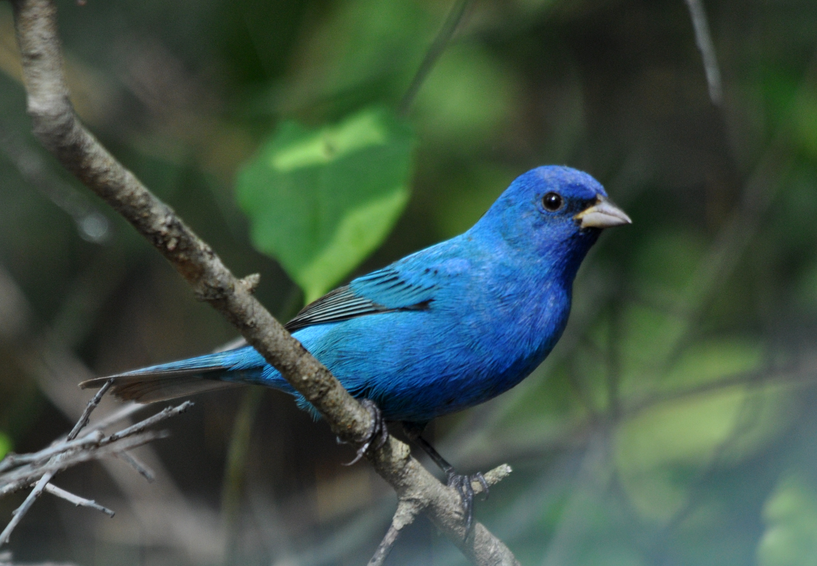 Week 13 Campsite Visitors! Sitting with a coffee, camera, and binoculars while visiting with a friend in Goose Island State Park, Texas--great way to spend a couple of mornings. This beautiful migrating male Bunting was a special treat on an already very enjoyable visit.